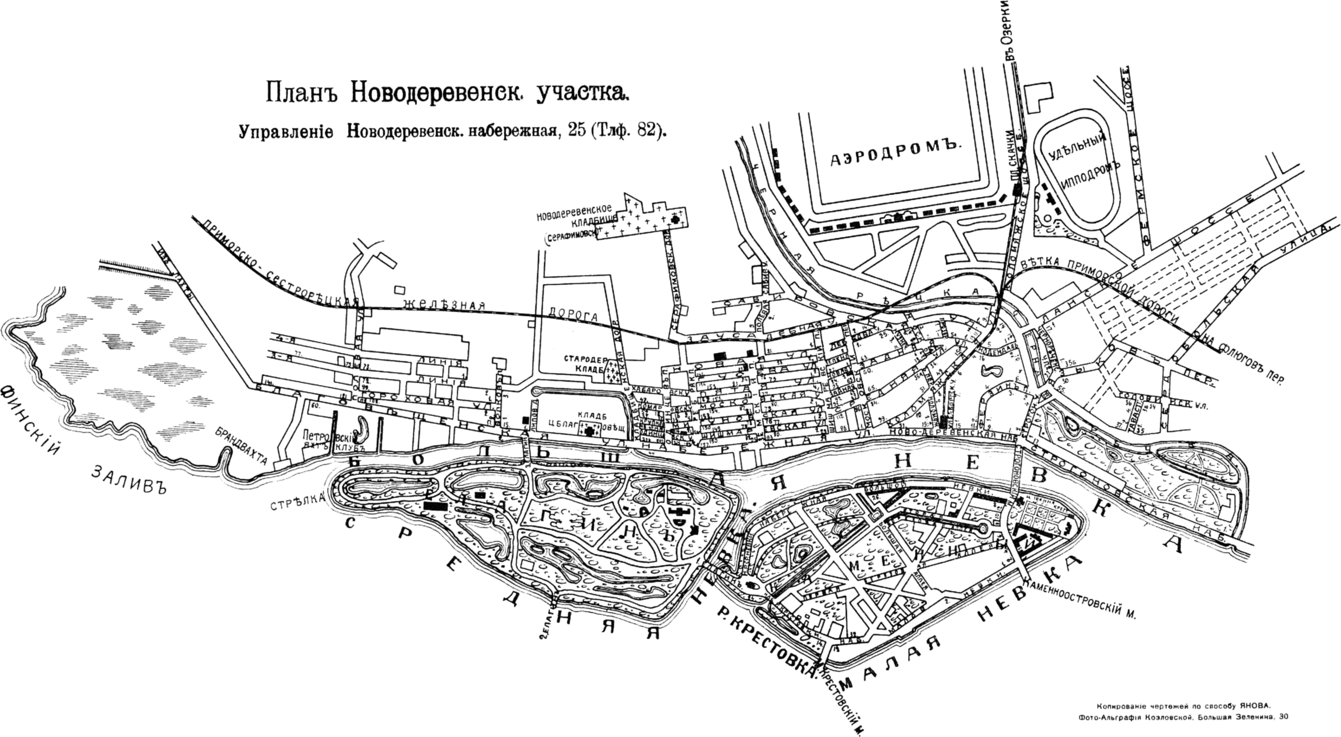 The hand-drawn map of 'Novoderevensky Uchastok' - one of the closest suburban districts of Petersburg in Russia